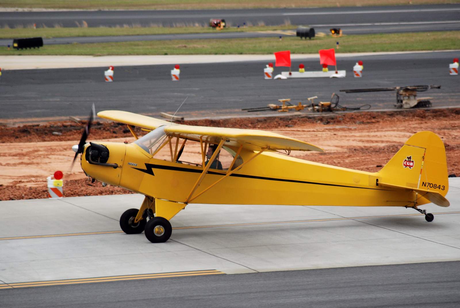 A Piper J3-C. Taken by myself with a Nikon D80 and 70-300mm lens.